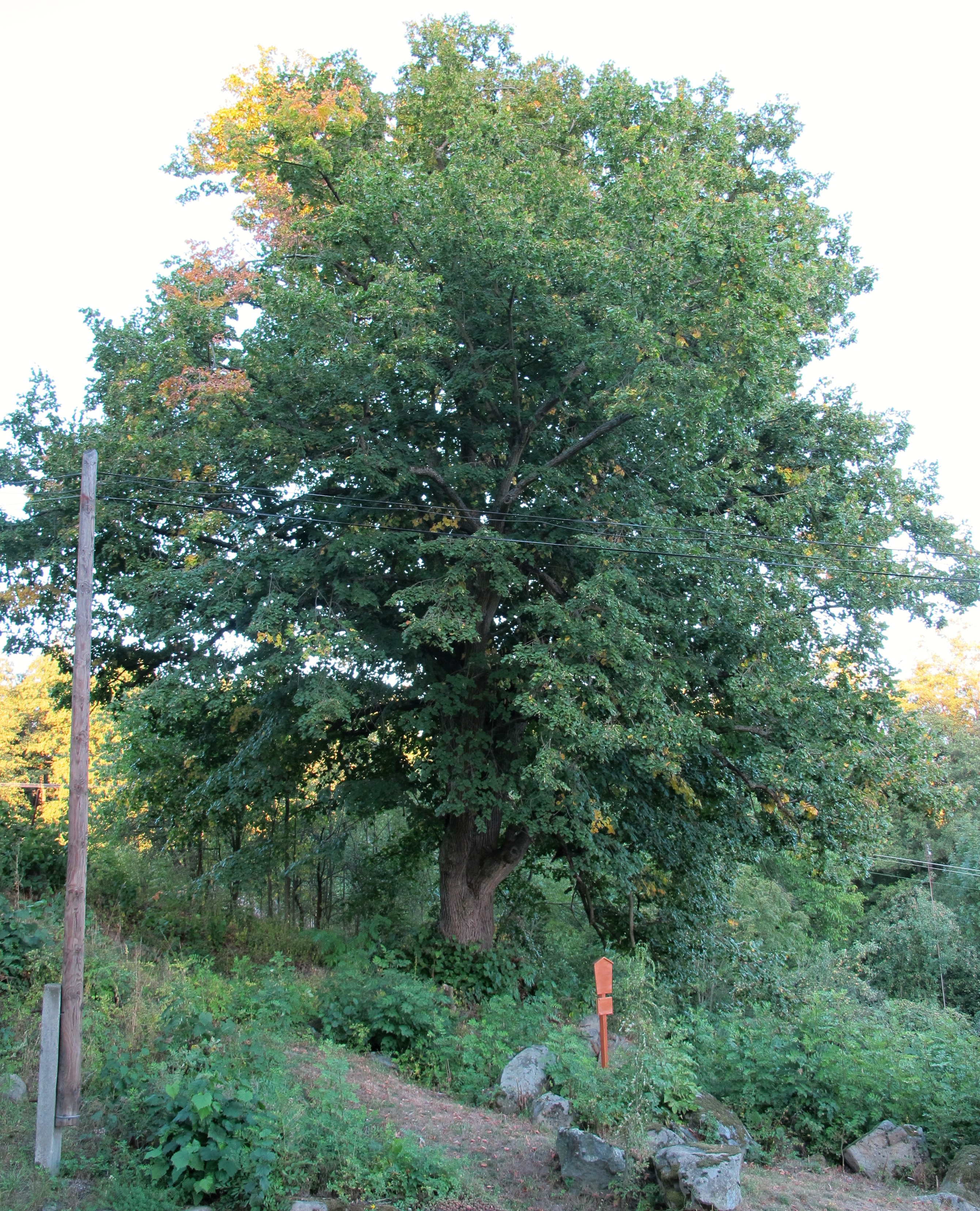 Famous tree - lime in Paštiky (Bezdědovice) near Blatná, Strakonice District (Czech republic)